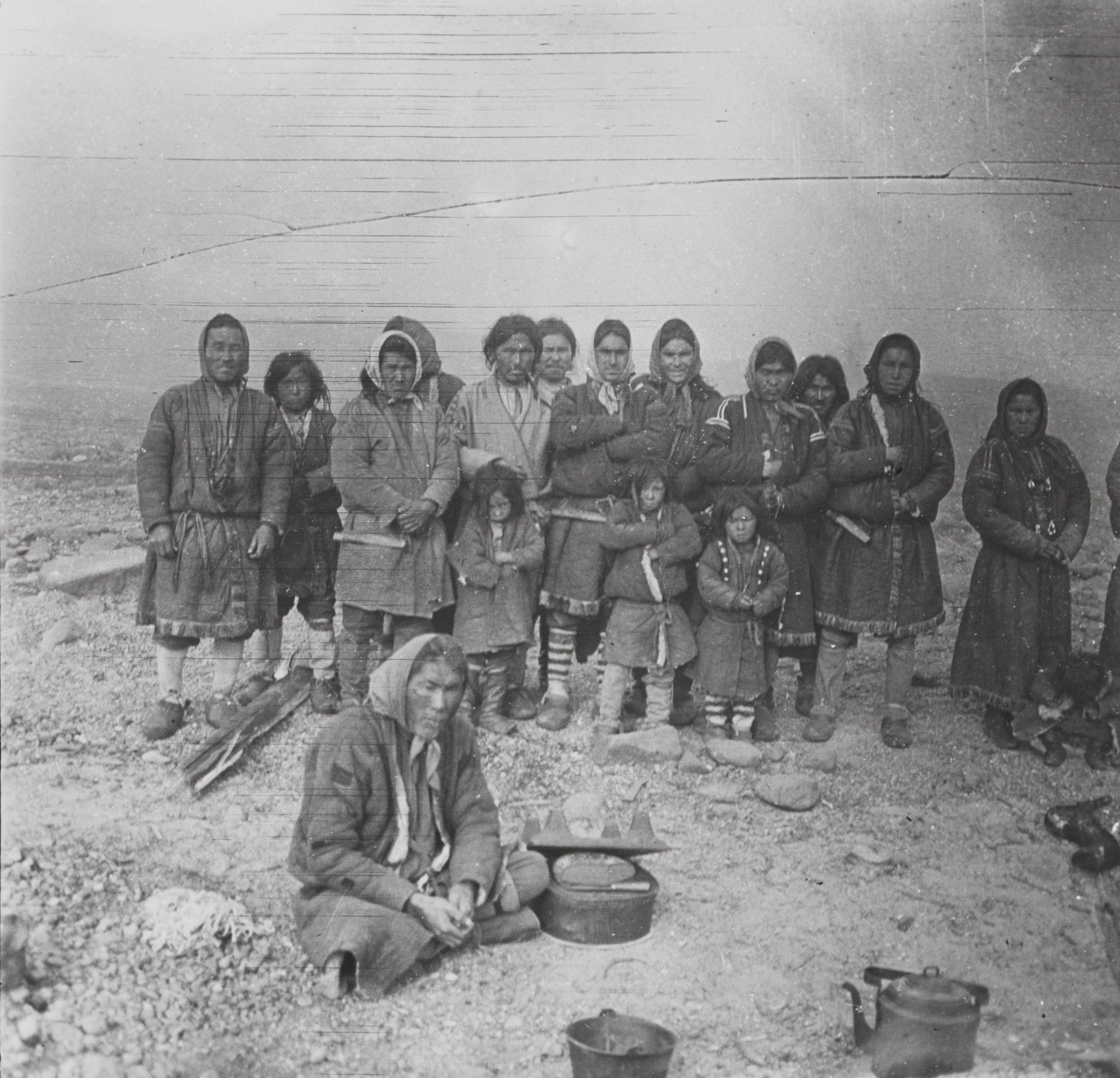 A group of ketes (jenisejostjaks) (ethnic group) on the shore. In the foreground an old woman is sitting next to the fire where food is being prepared. The men were now sober after abusing alcohol the night before. One of the pictures from the journey to Siberia between Aug. 2 and Oct. 26, 1913. Fridtjof Nansen continued his trans-Siberian journey in a small steamer up the Yenisei River to Yeniseisk.